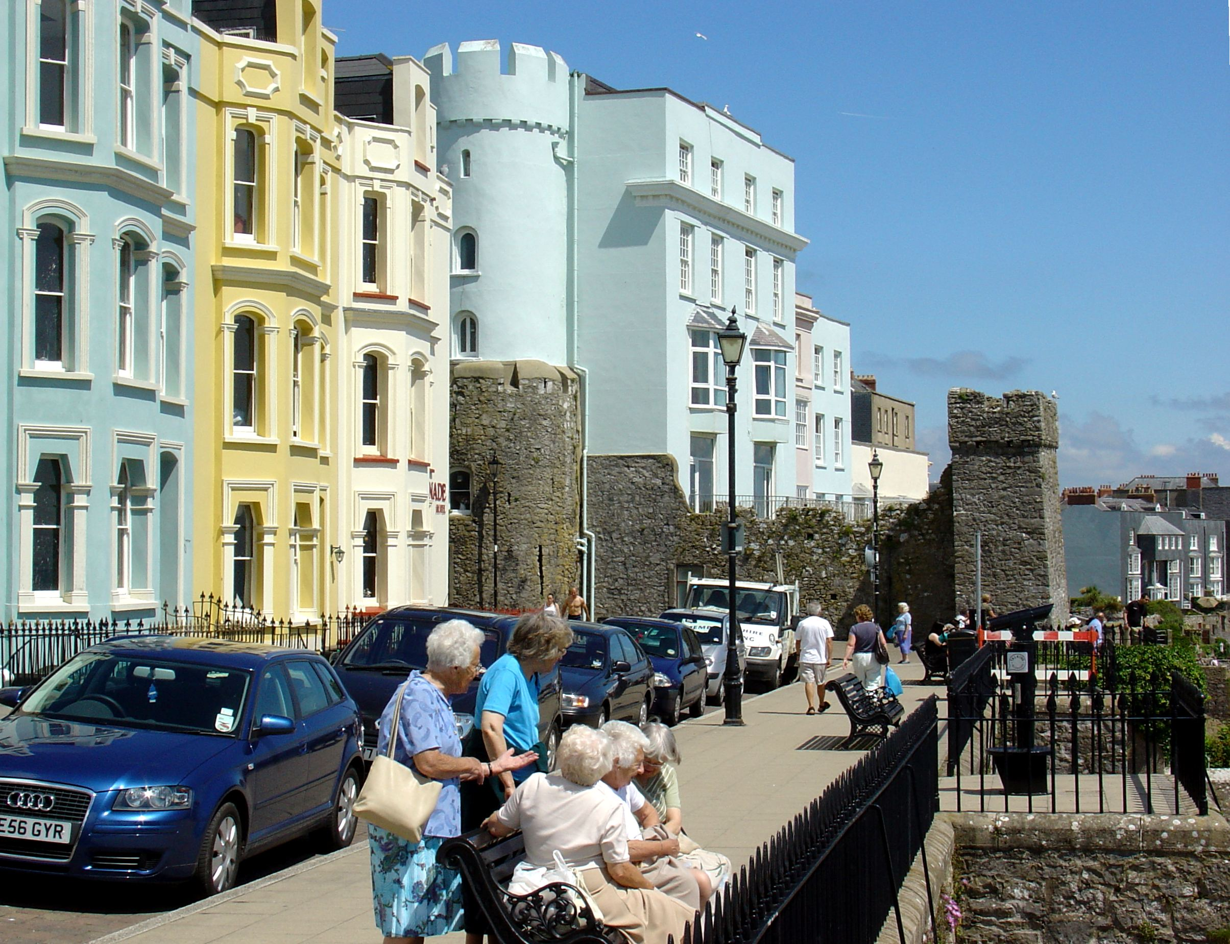 Local ladies meet for a chat on the prom at Tenby, photographed by Aeronian on 4 June 2007 with Sony DSC VI camera Aeronian's images User:Aeronian/Images